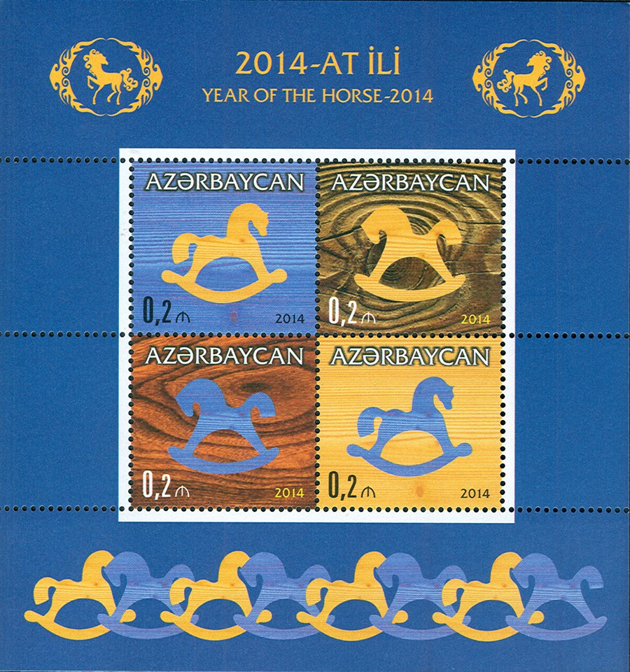 2014 - Year of the Horse. N 1136 - N 1139 - 20 qapik of each.